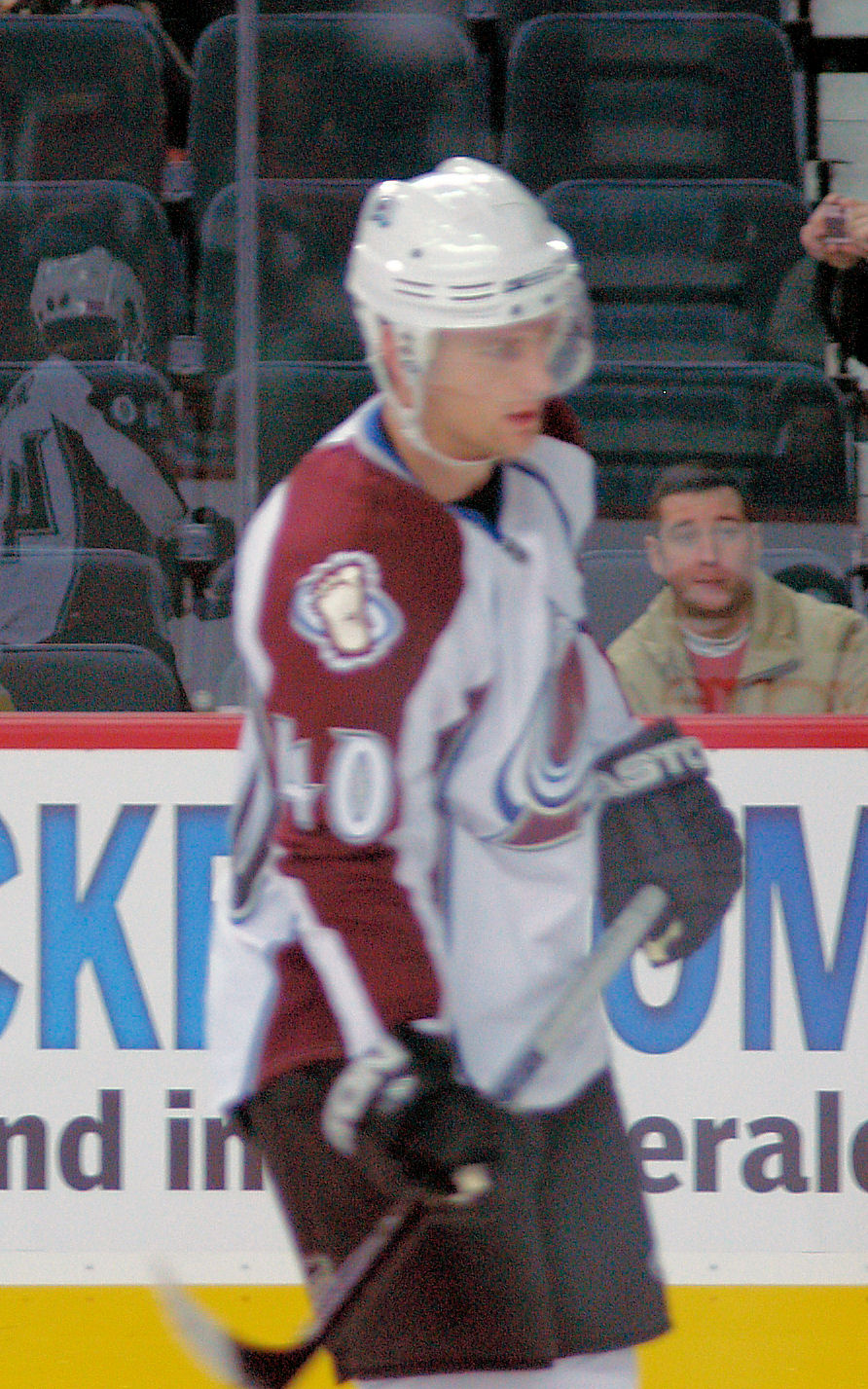 Marek Svatos warming up before a game in Calgary, Alberta